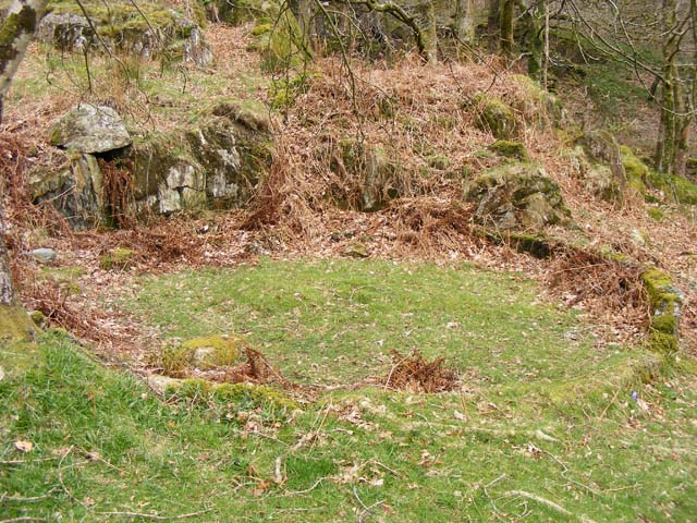 Remain of Buddle, Ore dressing plant in Cwm Bychan Buddles were used to was and separate out lighter and heavier elements of ores. The buddle consisted of a concreted circular pit with rotating brushes. Ore would be sent to the centre of the pit. Denser material would be deposited towards the centre and lighter material towards the outside. Another buddle nearby still retains the central cone.